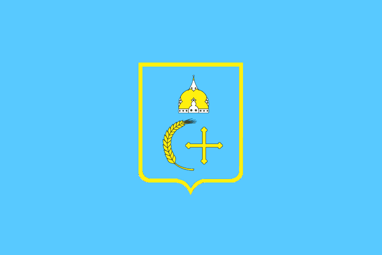 Flag of Sumy Oblast, Ukraine